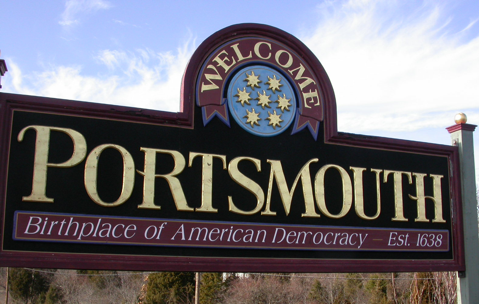 Portsmouth welcome sign